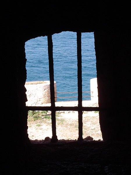 View from cell of Chateau d'If Image by ChrisO